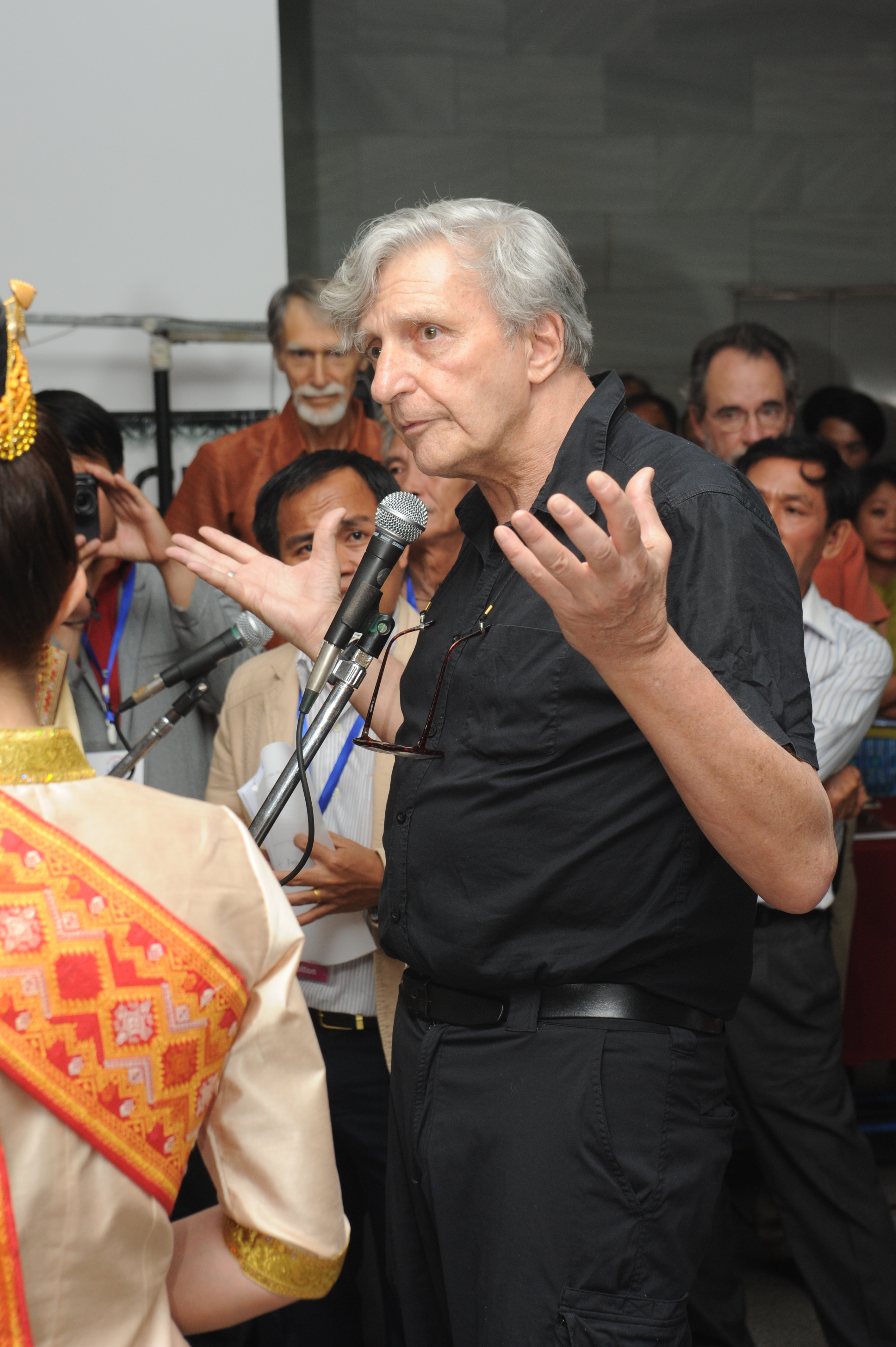 Fred Branfman delivers a passionate address at the book launch.